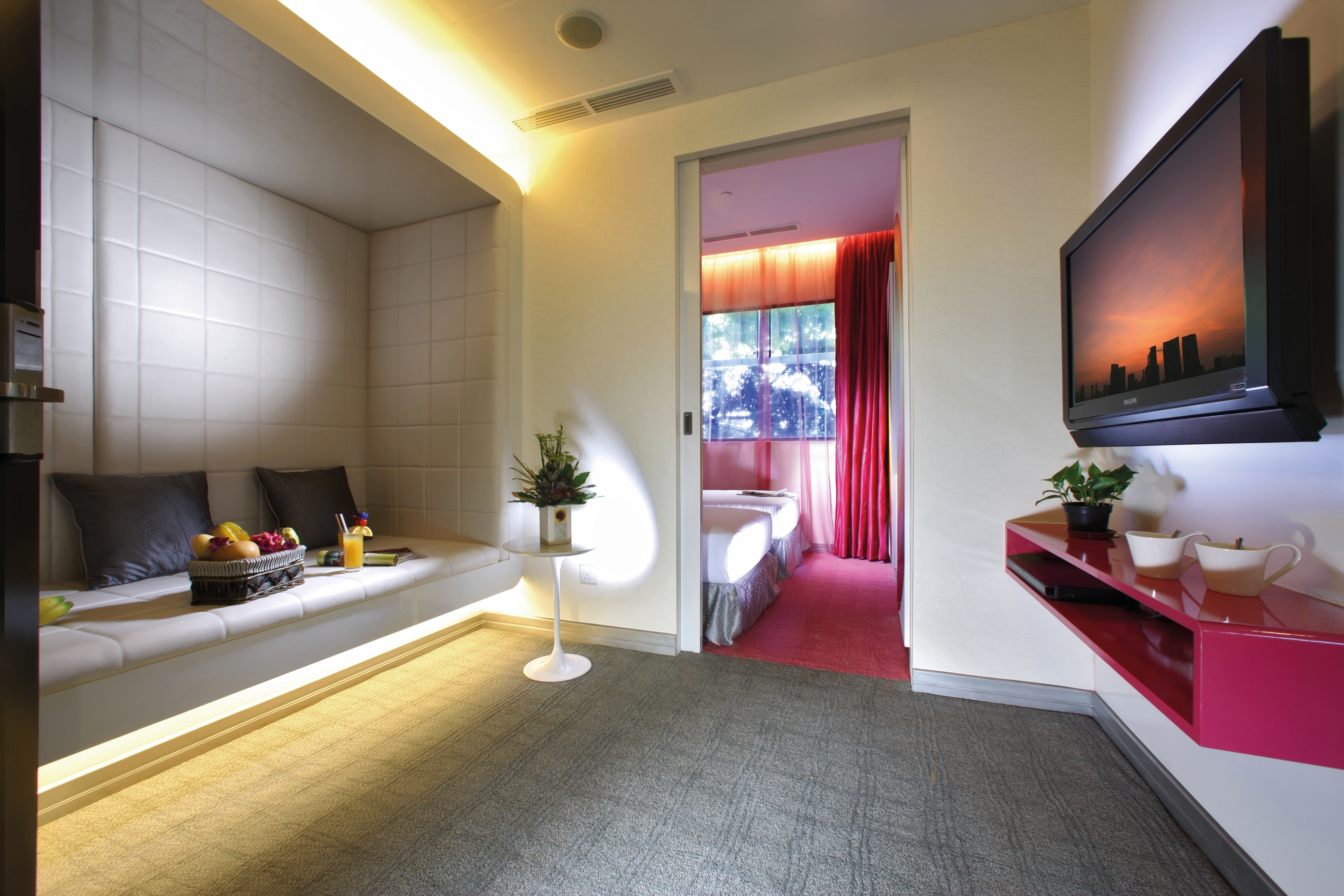 Family suite in a hotel